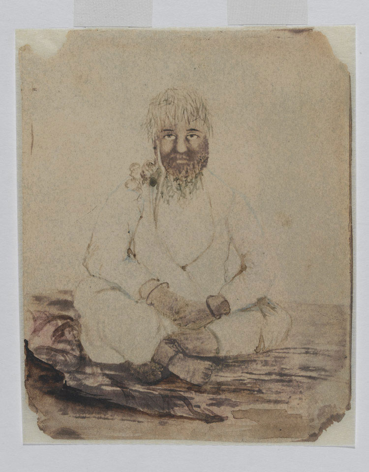 Pencil sketch of Tantia Topi, Sepoy rebel, made by Captain C. R. Baugh at Sipri in April 1859, just before Tantia's execution.